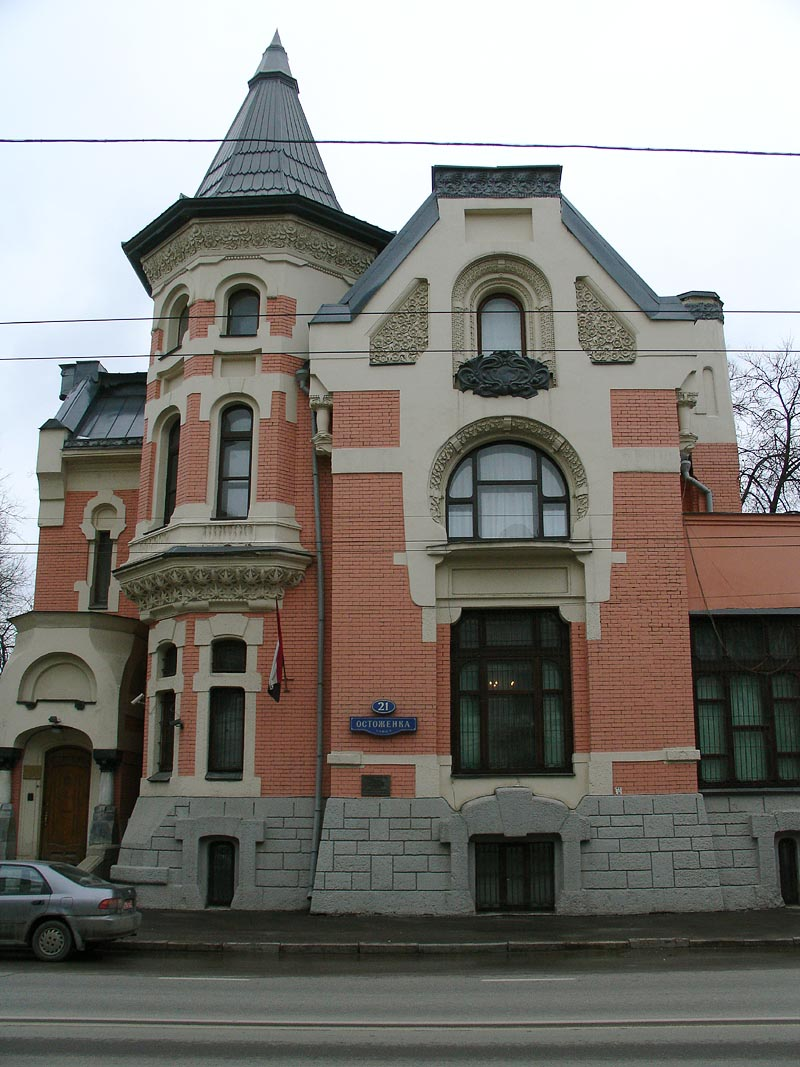 Own house of architect Lev Kekushev, 21 Ostozhenka, Moscow, Russia. Now houses the Defence Attache of the Arab Republic of Egypt in Moscow